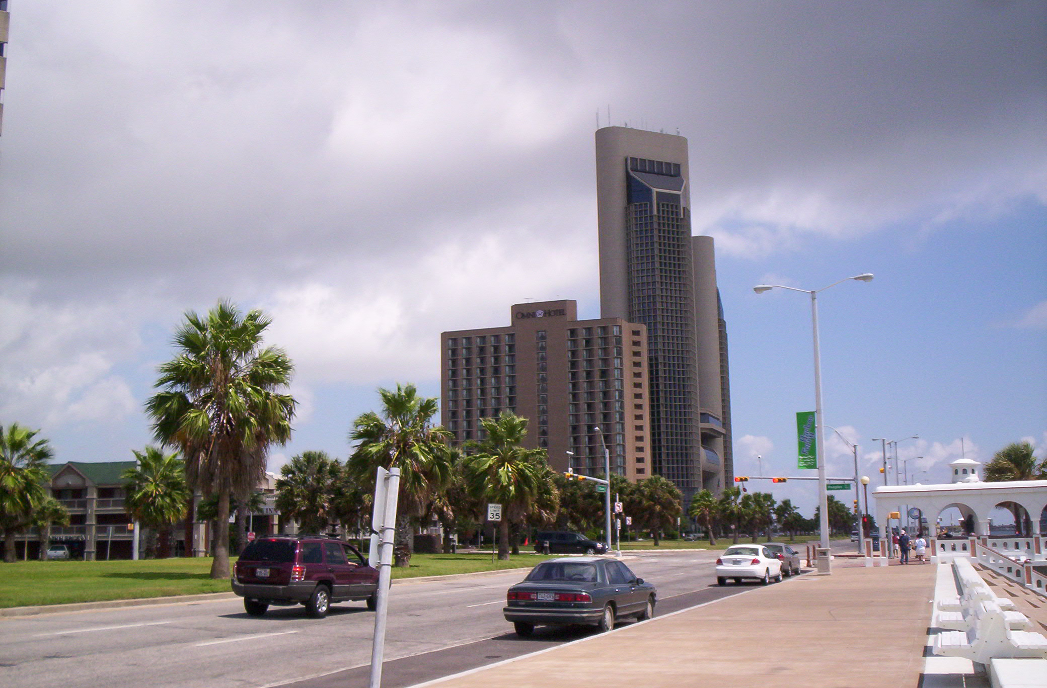 Bayfront of Corpus Christi, Texas